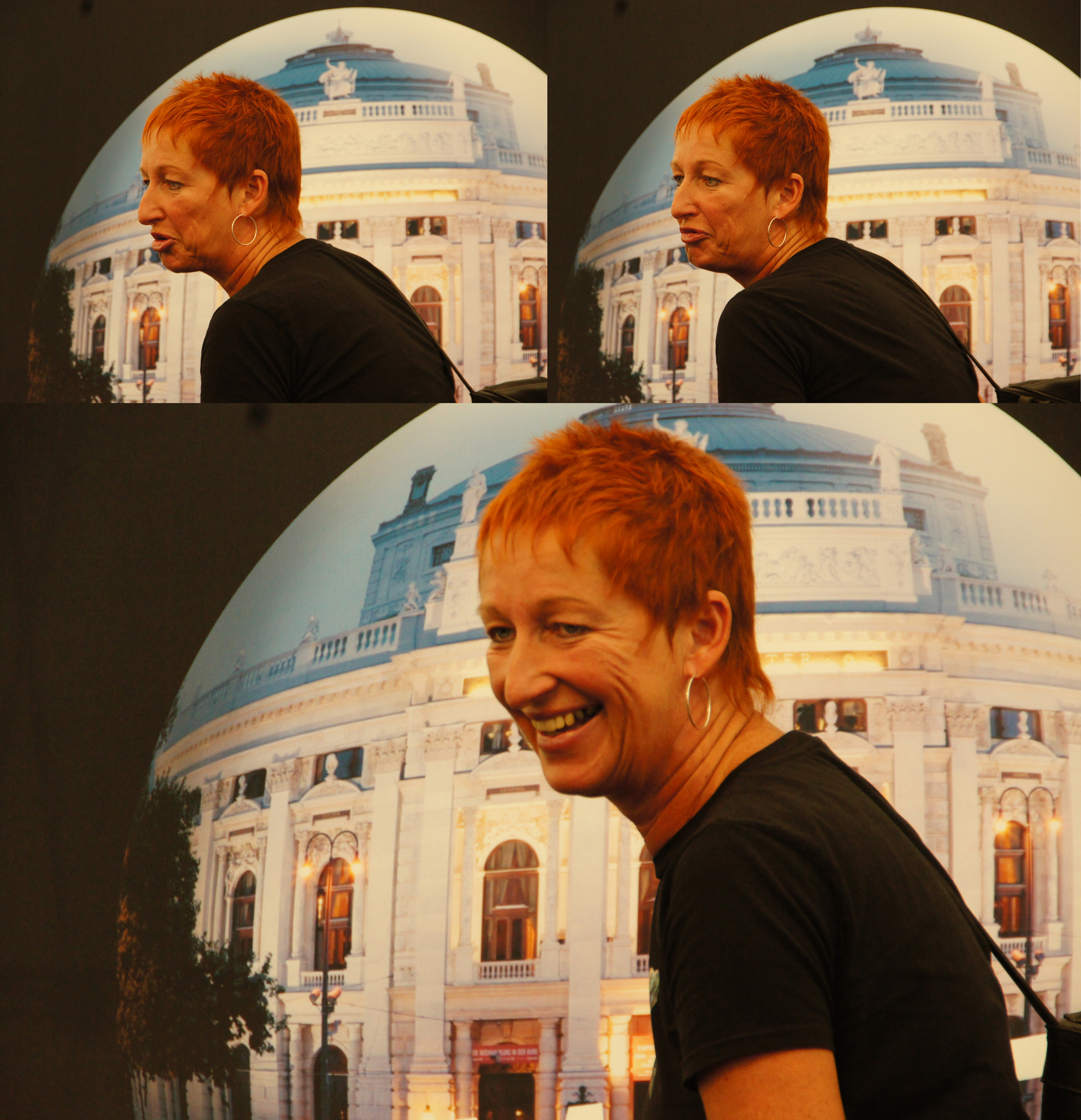 I just hope this fine lady enjoys this 'photographical joke' as much as I do. The frames were taken at the very end of her reading from her recent novel 'Krummvögel'. No English version, as of now.